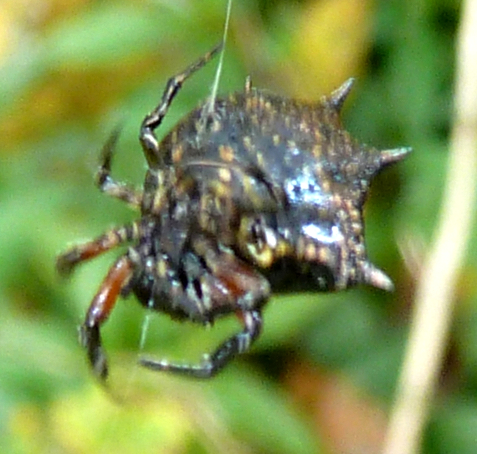 Biscuit kite spider in Krantzkloof Nature Reserve in Kloof, KwaZulu-Natal